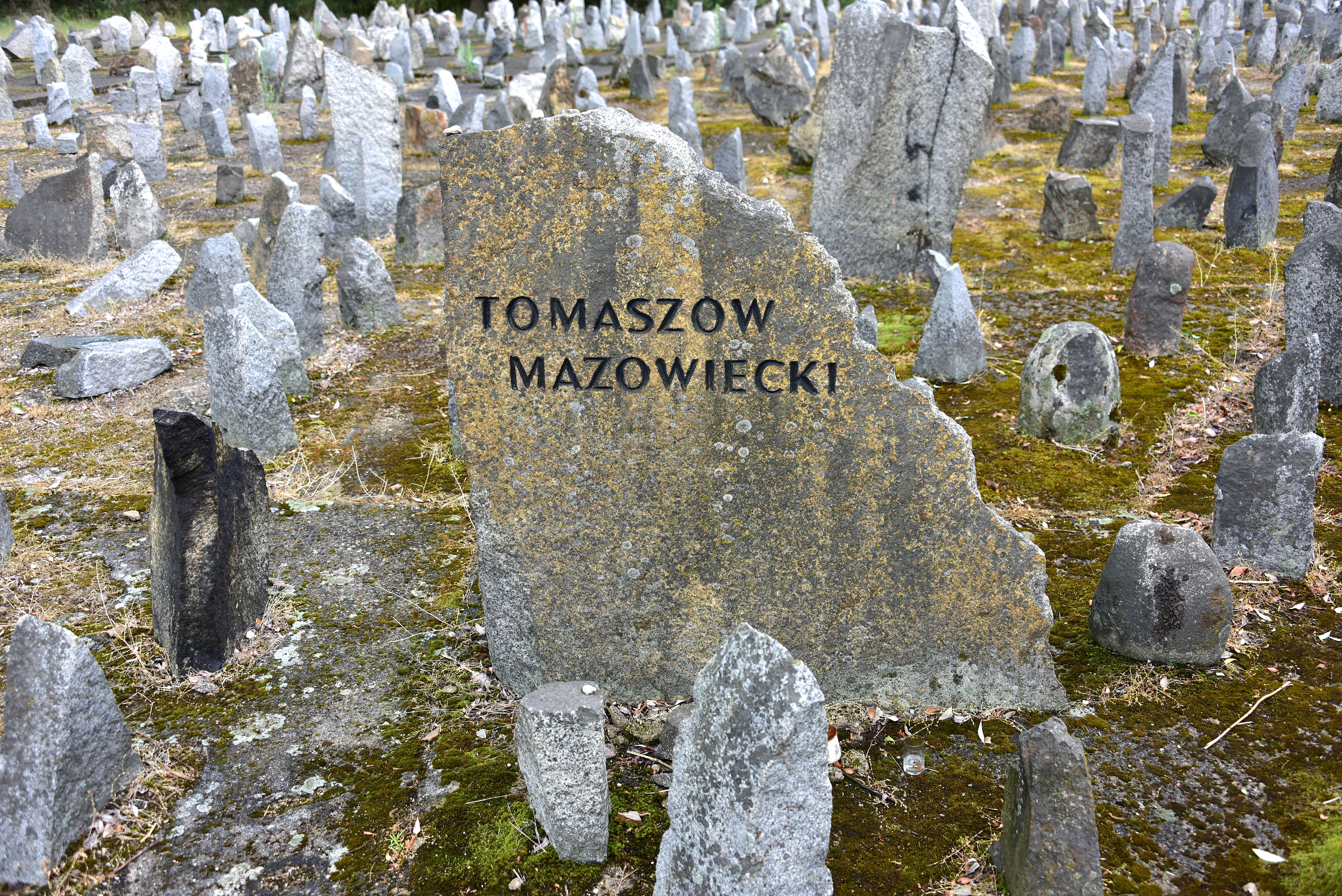 Treblinka death camp memorial. A stone commemorating the murdered Jews from Tomaszów Mazowiecki